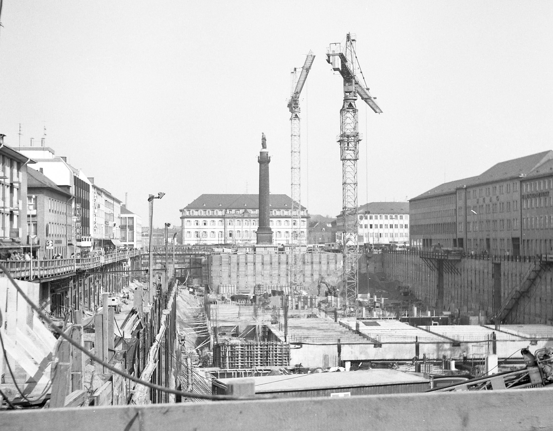 Construction site of Luisencenter mall, Darmstadt, Hesse, Germany, spring 1976